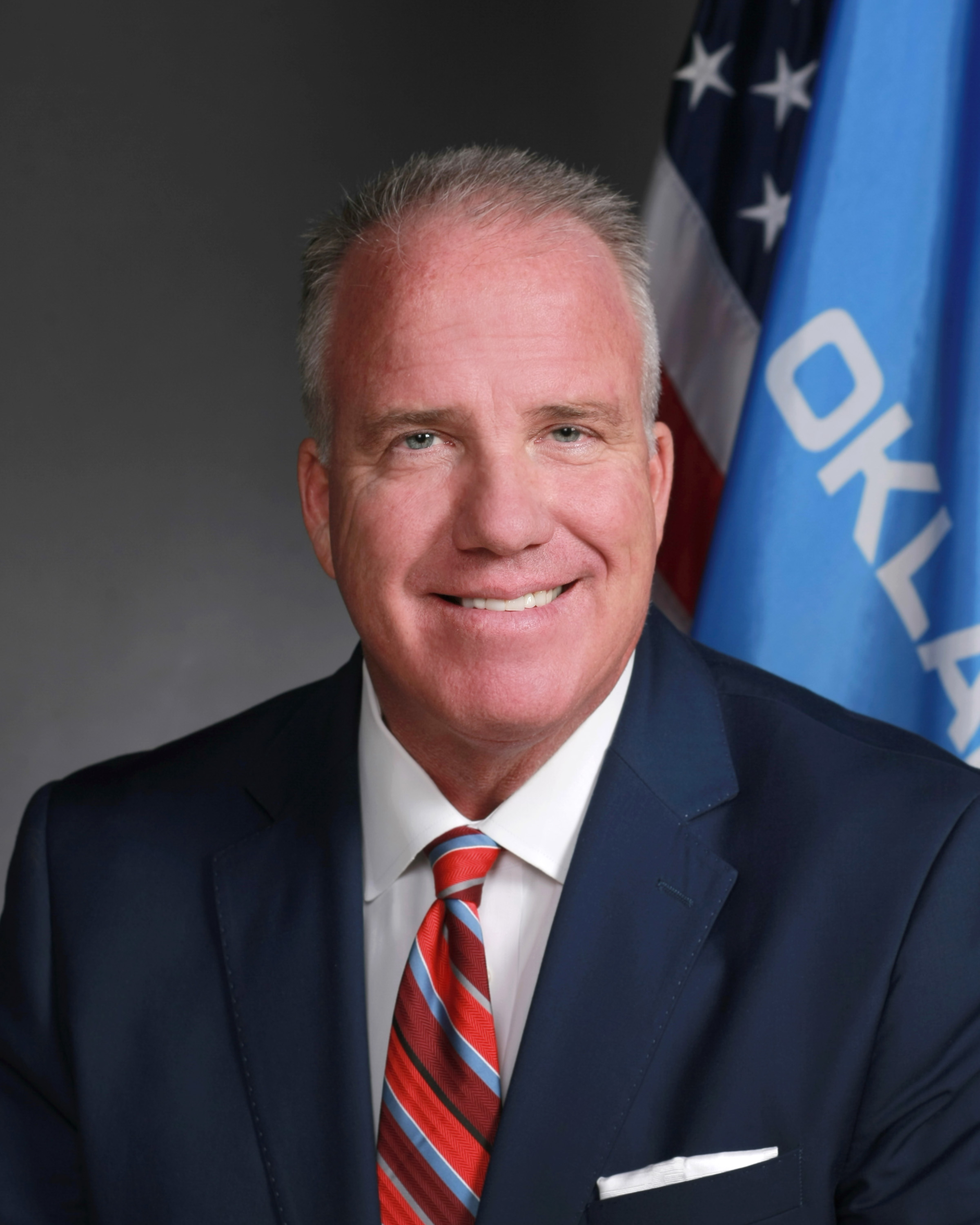 Insurance Commissioner Mulready was sworn into office on Jan. 14, 2019.